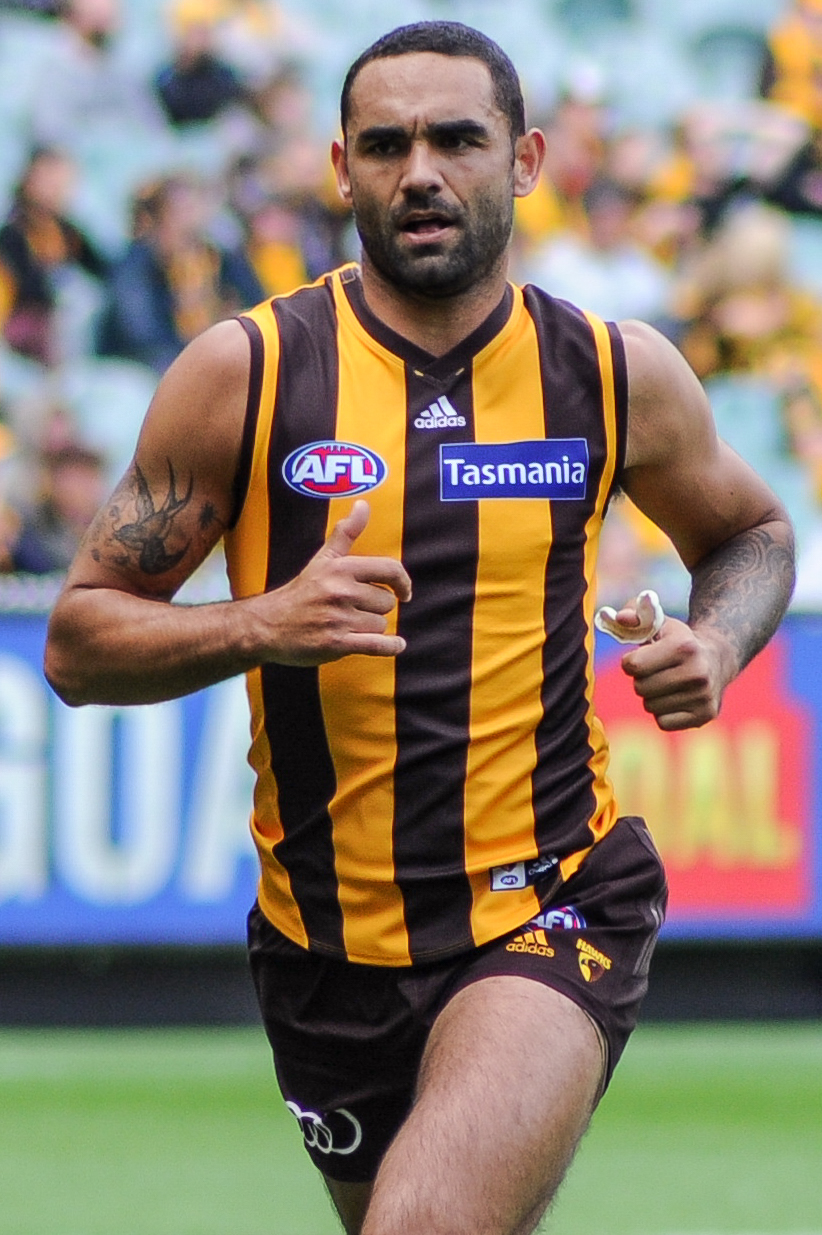 Shaun Burgoyne during the AFL round two match between Hawthorn and Adelaide on 1 April 2017 at the Melbourne Cricket Ground in Melbourne, Victoria.